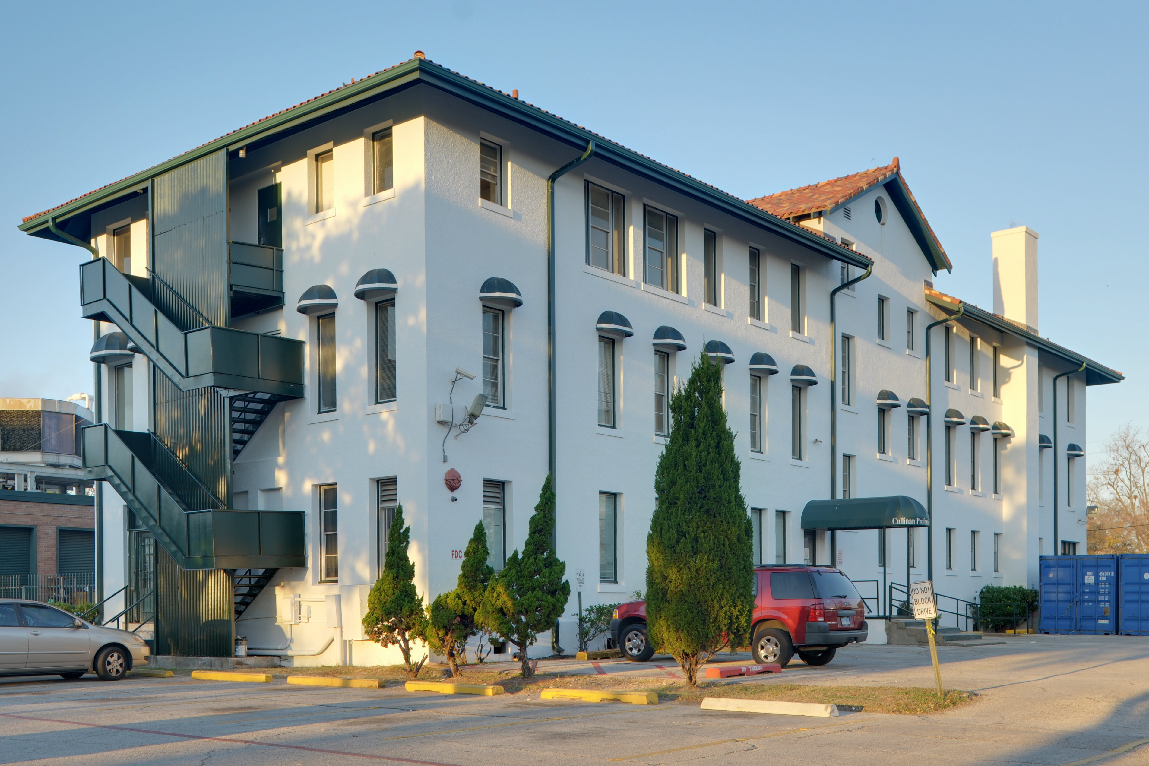 The Houston Negro Hospital — at 3204 Ennis Street, in Houston, Texas. Built in 1926 in the Spanish Colonial Revival style. Listed on the National Register of Historic Places in Houston (United States Department of the Interior).